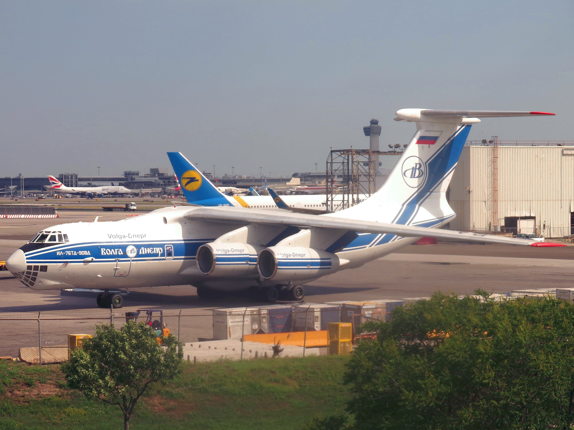 A Volga Dnepr Airlines Ilyushin IL-76TD-90VD cargo plane is parked at John F. Kennedy International Airport in New York City between Buildings 260 and 261.